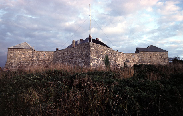 Star Castle The Star Castle was built by Sir Francis Godolphin in 1593 on the orders of Elizabeth I. It has been a hotel for many years